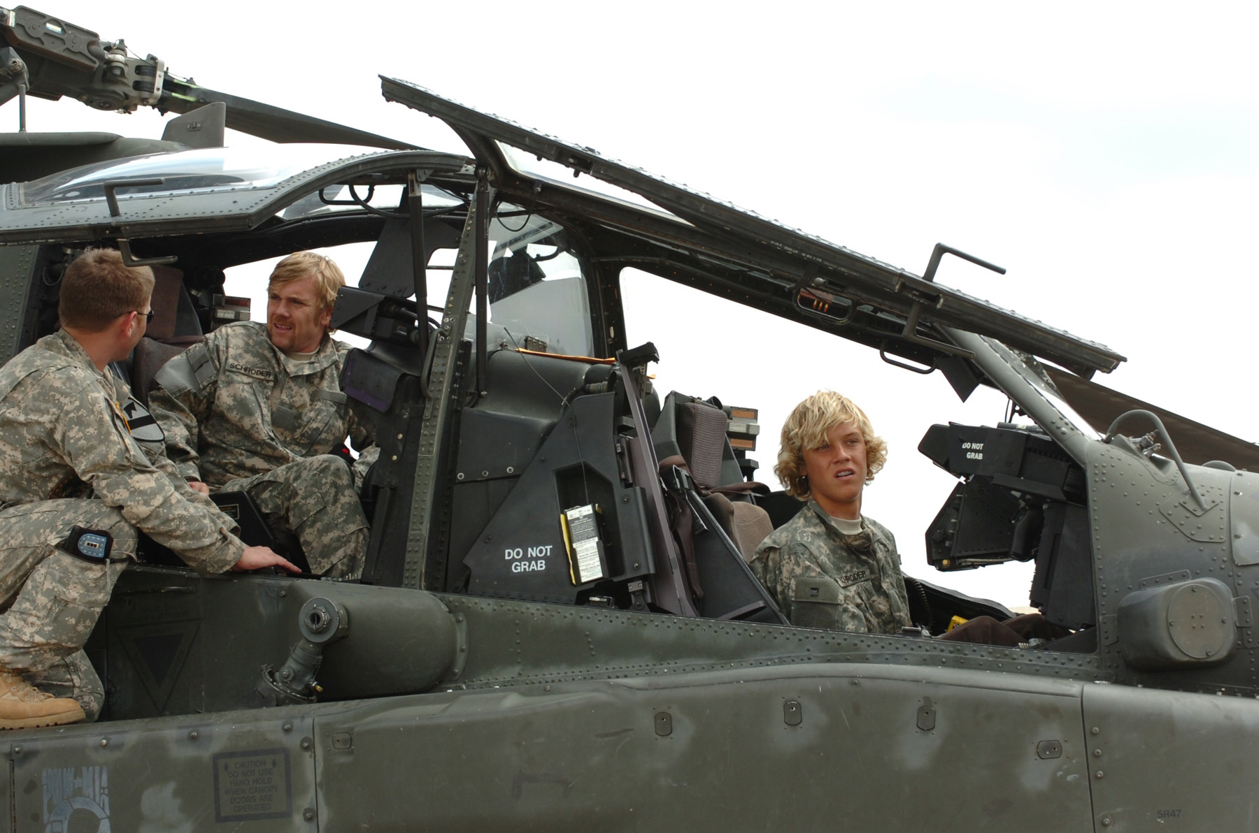 Veteran actor Ricky Schroder and son Luke (right), take the pilot and co-pilot seat in the Apache AH-64 helicopter during a visit to Fort Hood, Texas, May 1. Before boarding the craft and getting a look at a working Apache, Schroder and his son 'flew' the Apache simulator. Photo by Pvt. Kelly Welch, 1st BCT, 1st Cav. Div. Public Affairs